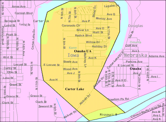 U.S. Census 2000 reference map for Carter Lake, Iowa